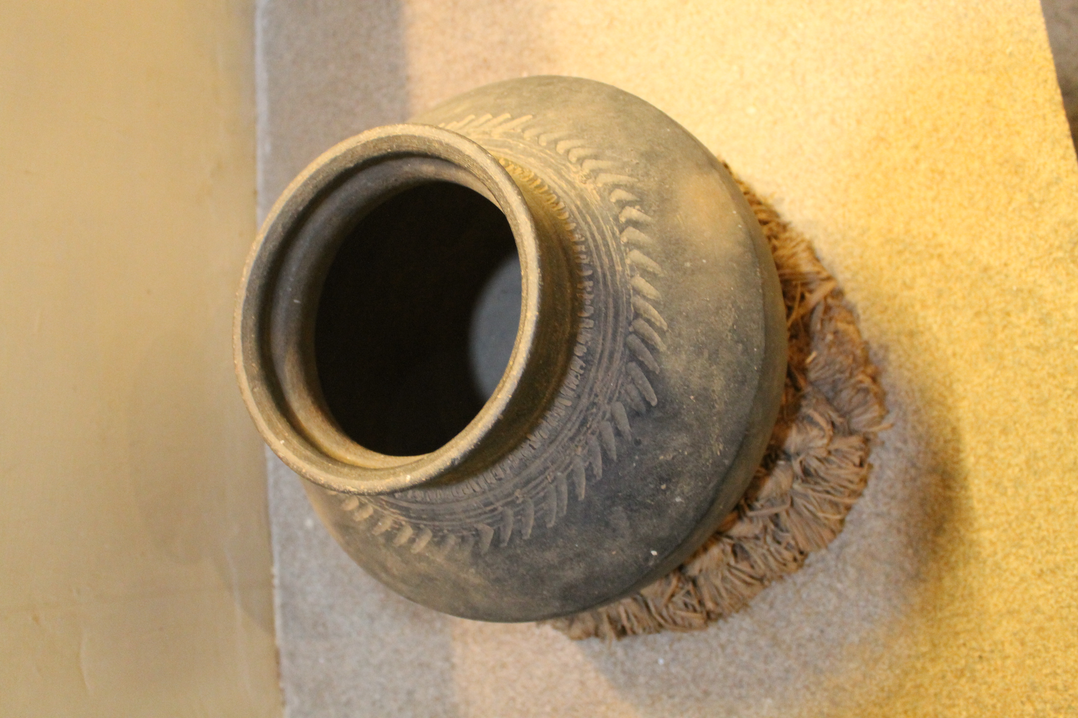 CIS-A2K TTT 2015